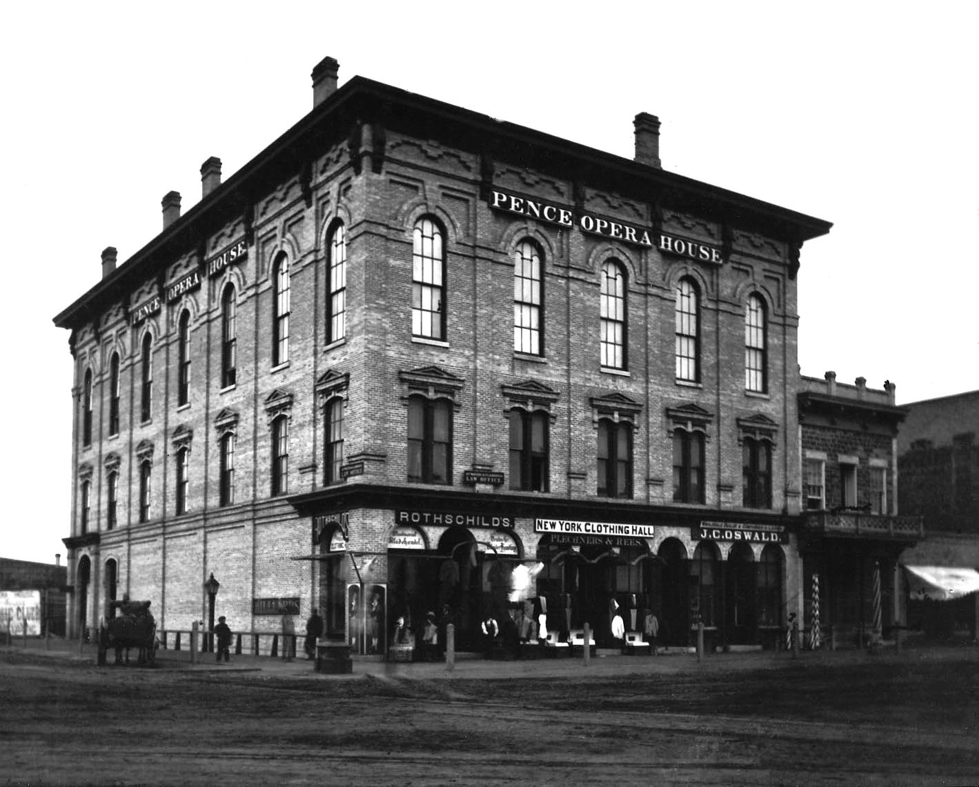 Pence Opera House, 1870 Flickr data on 2011-08-13 Tags: Old postcard, Pence, 1870, Opera House License: CC BY-SA 2.0 User: paukrus Ruslan